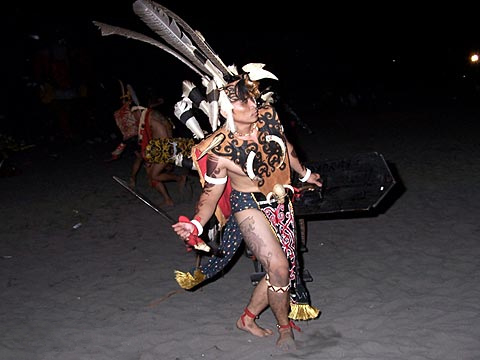 A man performing the Tarian Ngajat (Ngajat Dance), a dance popular among the Dayak Iban people of Sarawak, Malaysia.